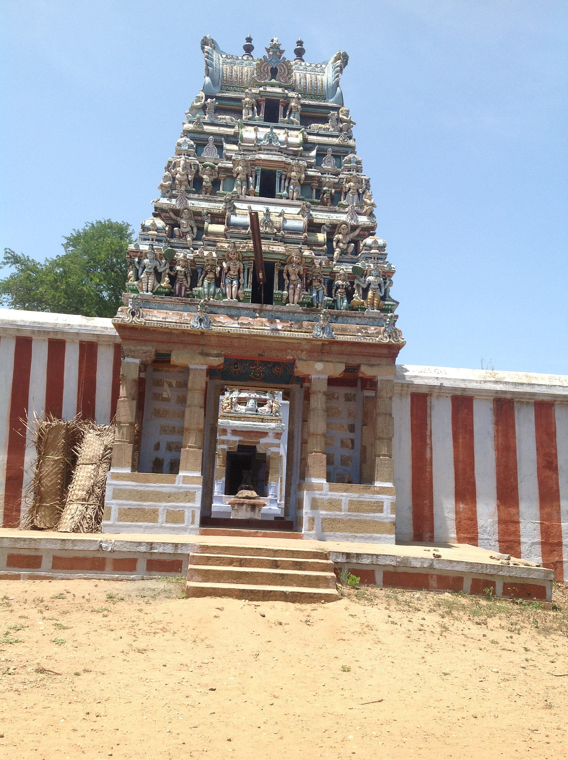 This is the front gopuram of the Arjuneswarar koil situated in Kadathur Madathukulam Taluk, Tirupur District, Tamil Nadu, India. This photo is taken from the steps leading to the Amaravathi river. This is the Gopuram of the Sivan Sannadhi